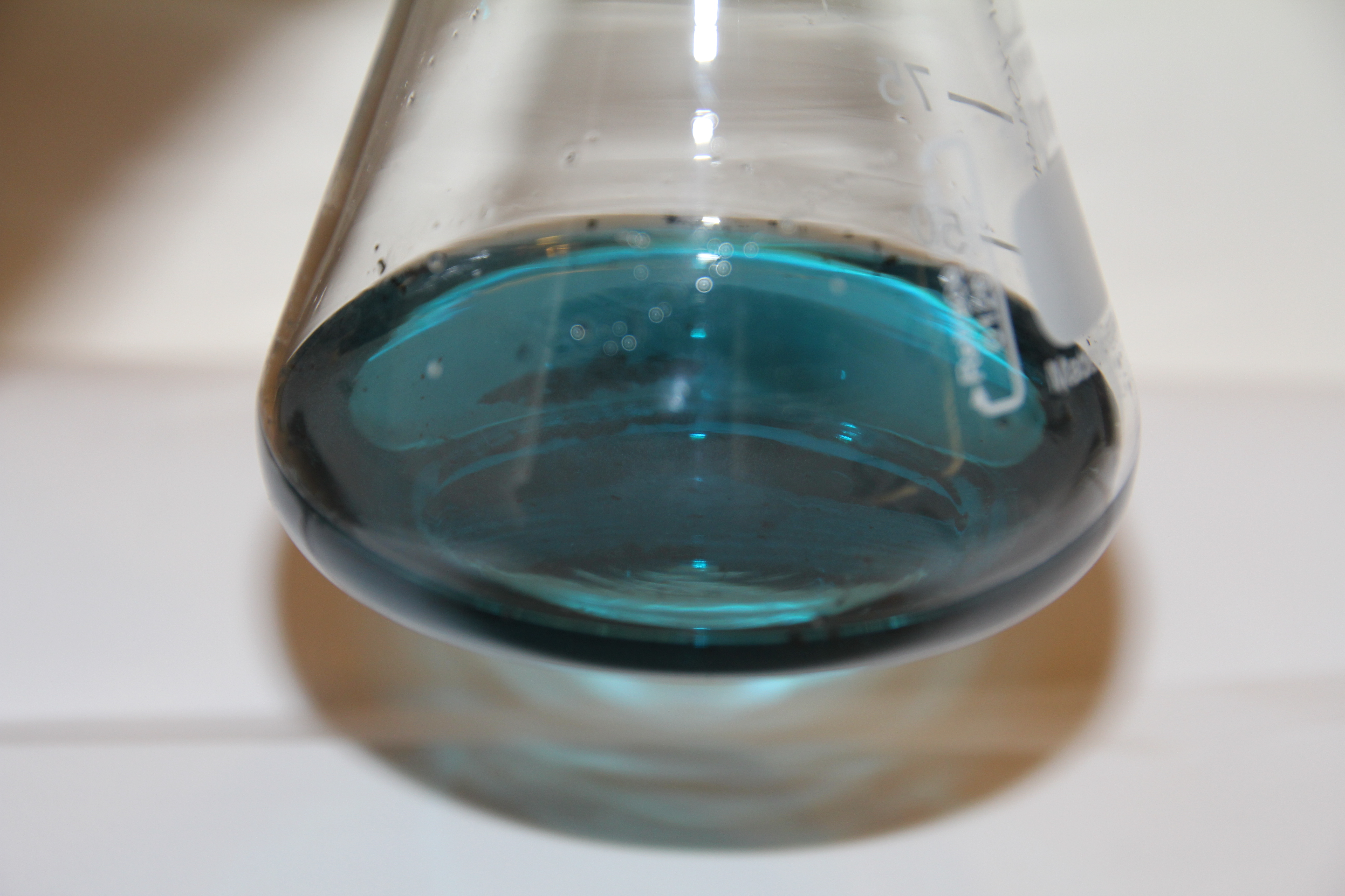 Chromium (II) ion in aqueous solution, made by reduction of chromic acid, demonstrating the pure blue color. Some zinc granules can be seen remaining on the bottom of the flask as black solids.